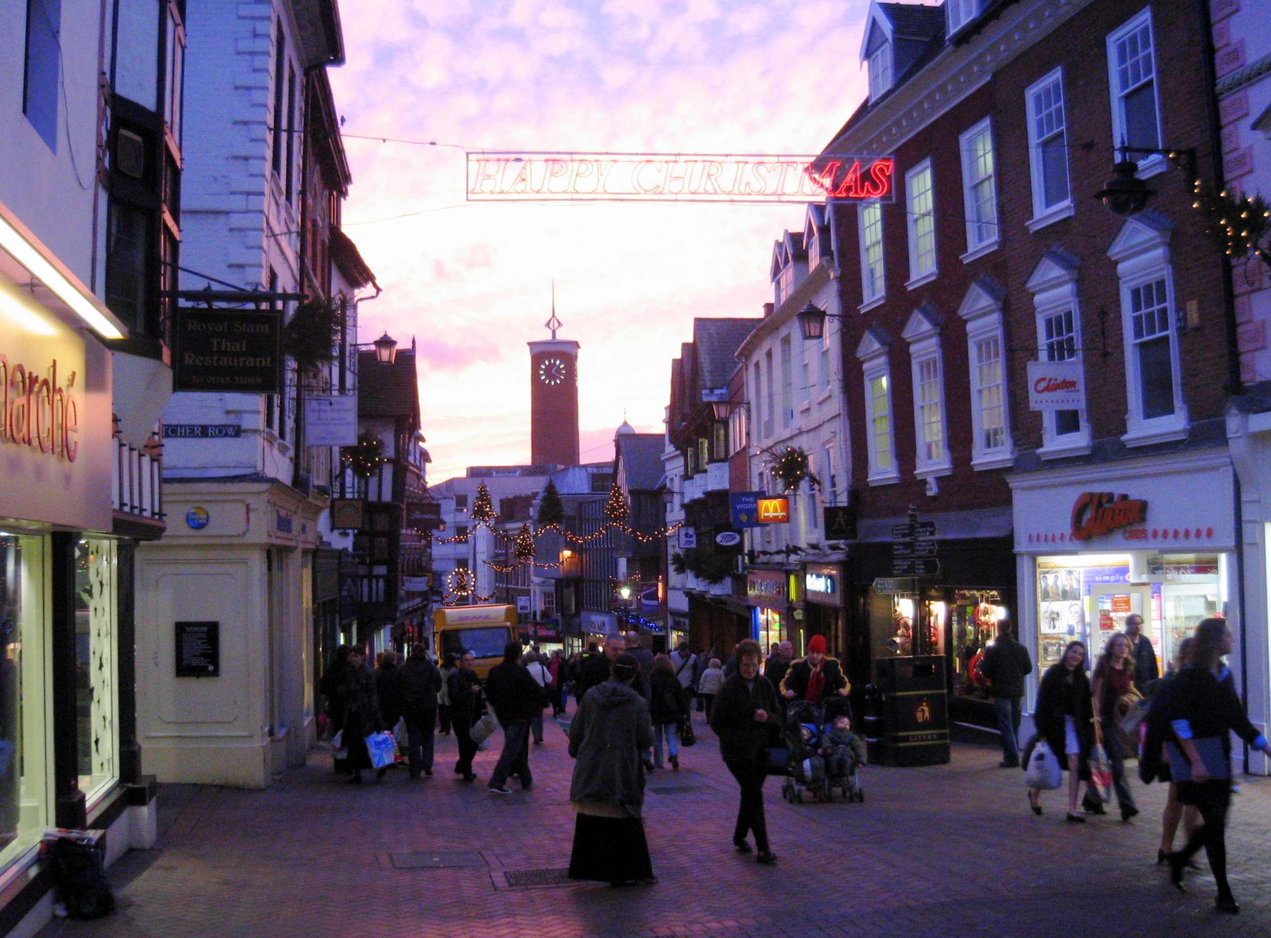 Christmas shopping on Pride Hill, Shrewsbury, UK